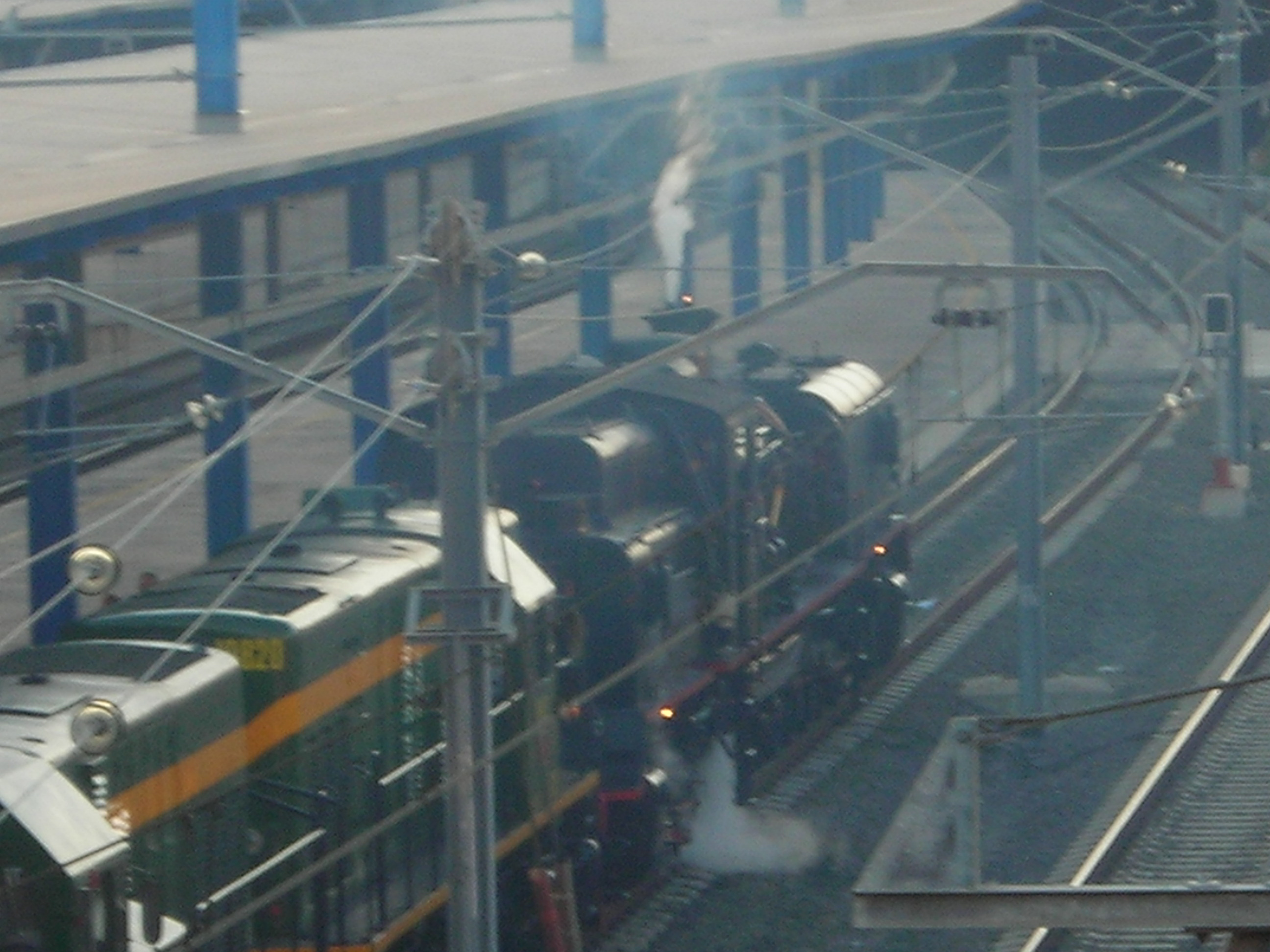 Train entering the station of Lleida, Spain